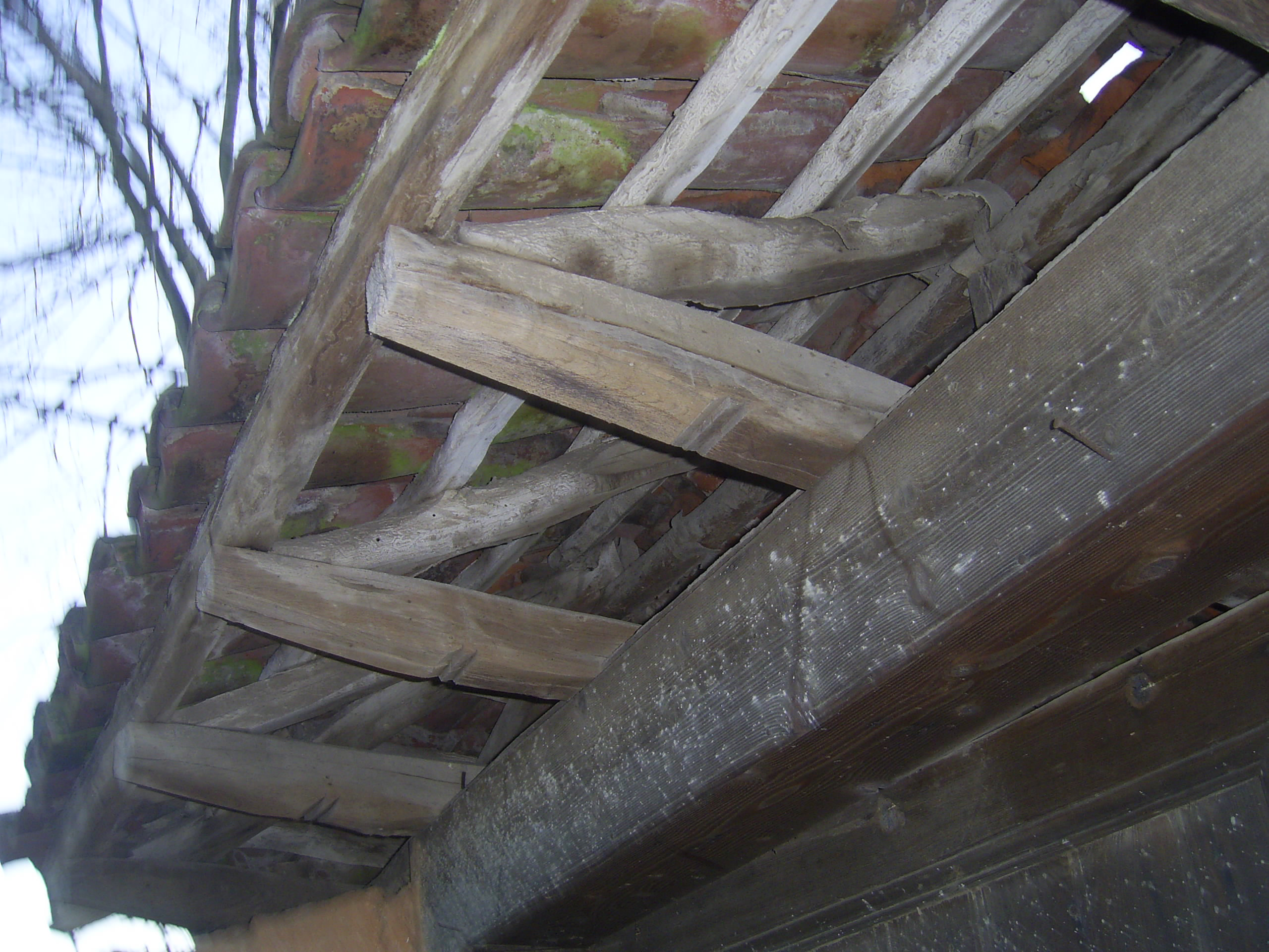 ``Чардак на порта`` с.Горно Черковище